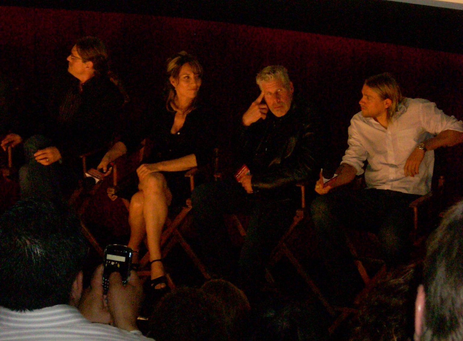 "Sons of Anarchy" at Los Angeles Times